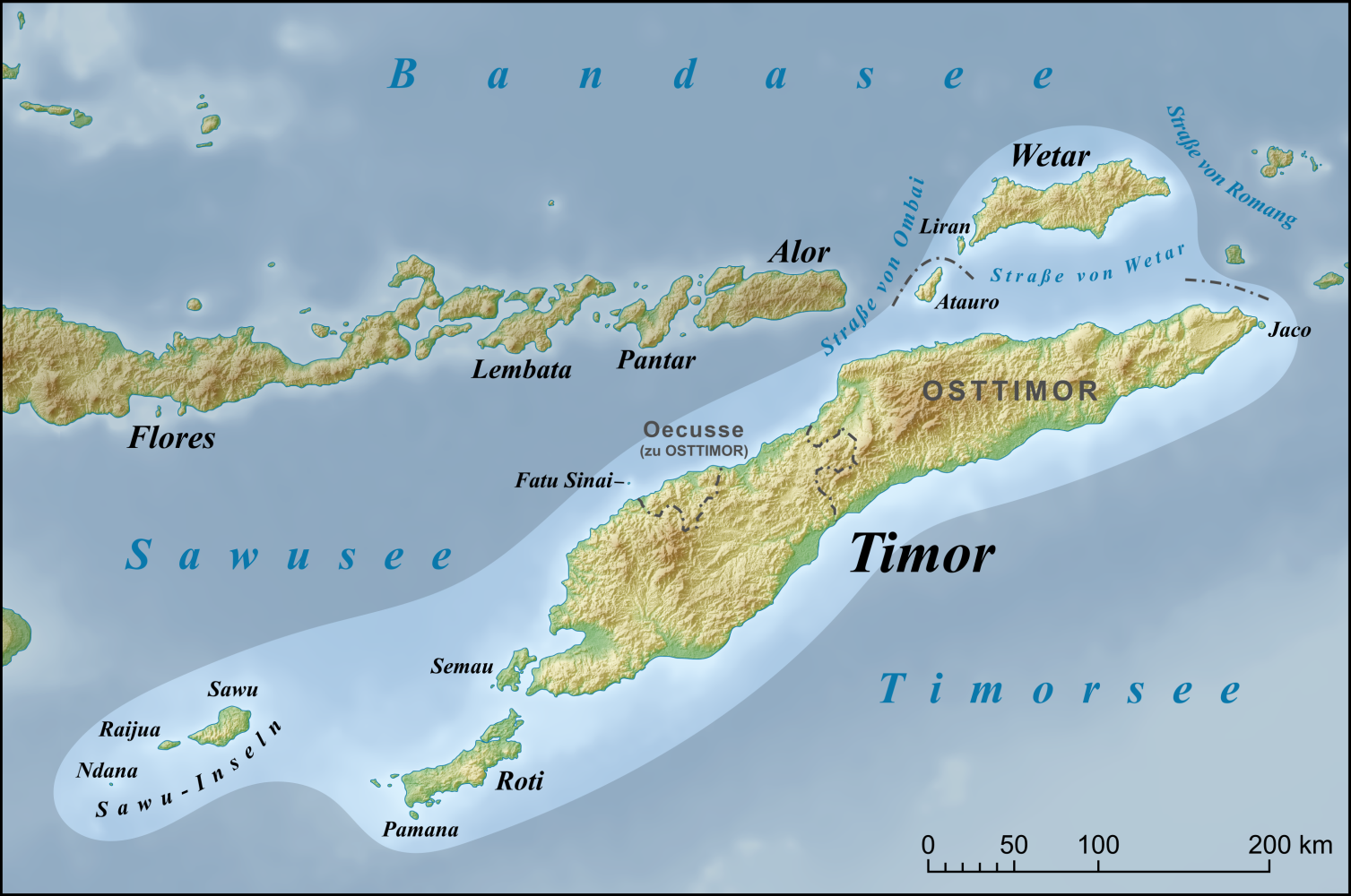 Map of islands belonging to the Timor and Wetar Endemic Bird Area